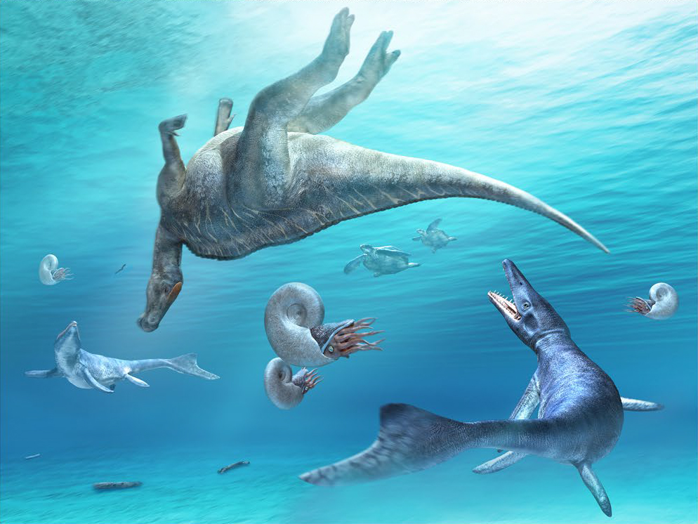 Carcass of Kamuysaurus, floating in the sea, with two mosasaurs (Mosasaurus hobetsuensis), two sea turtles (Mesodermochelys undulates), and four ammonoids (Pachydiscus japonicus).